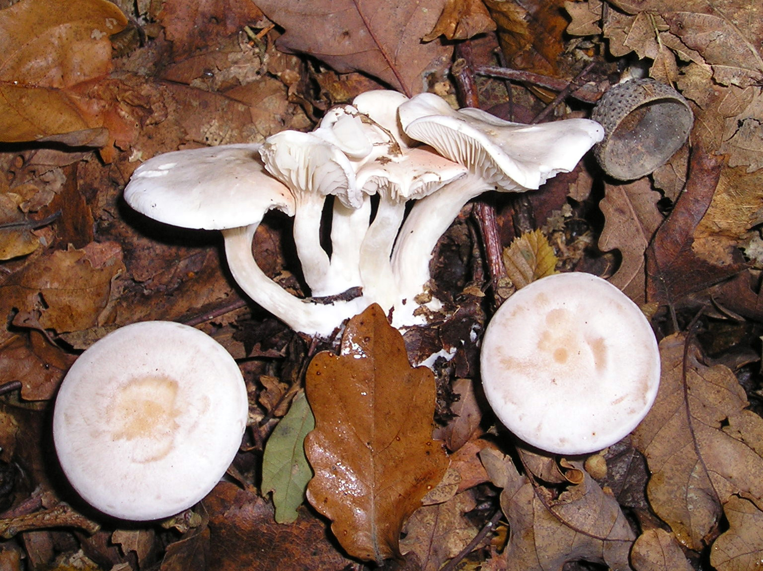 ... in a French wood near Rambouillet